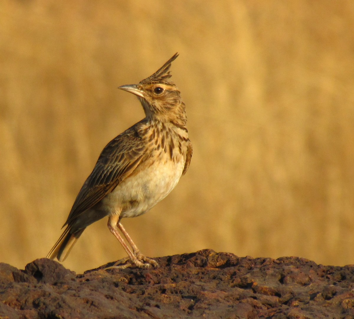 Crested Lark at Tembavli, Maharashtra, India